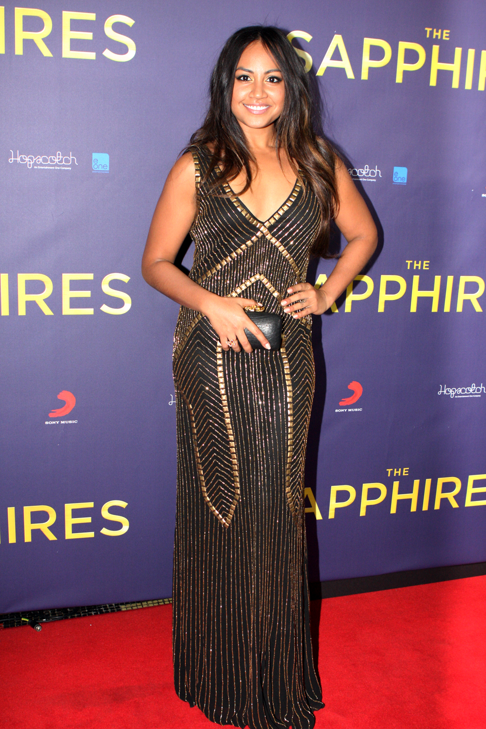 The Sapphires movie premiere at State Theatre, Sydney, Australia